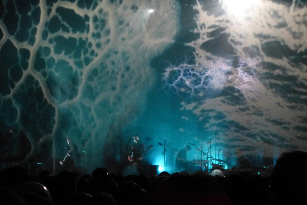 Sigur Rós live at The Wolverhampton Civic Hall, United Kingdom 5th March 2013.